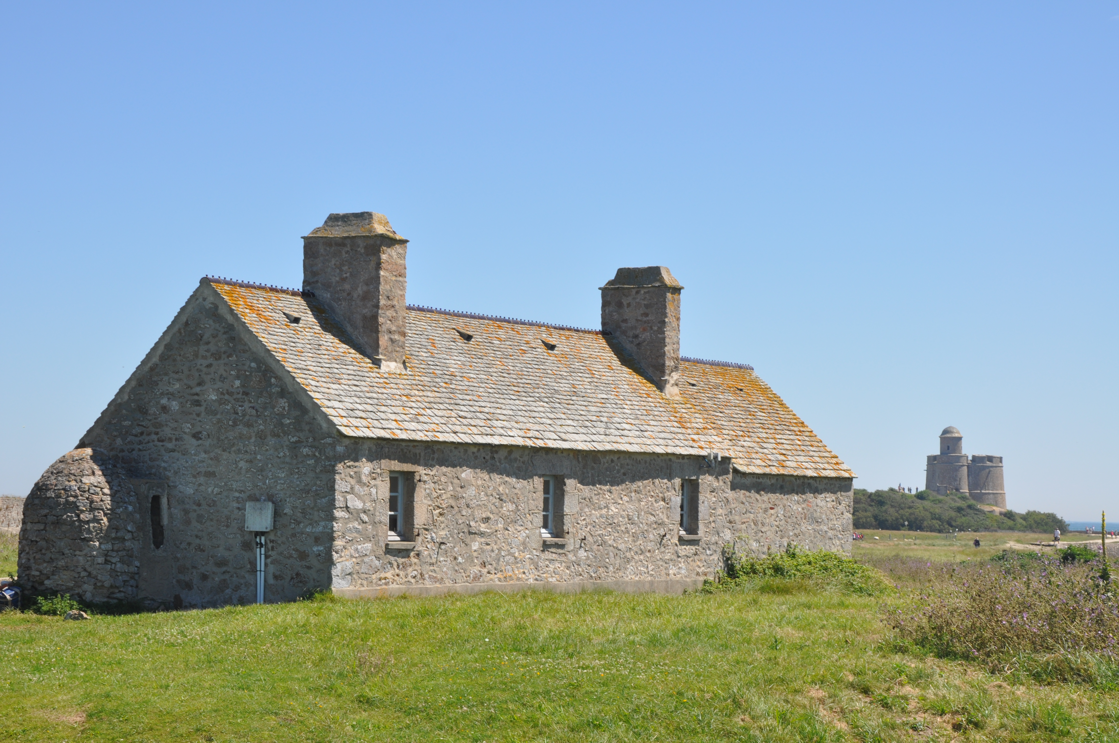 Tatihou Island (France, Normandy), near Saint-Vaast-la-Hougue : "maison des douaniers". Backside Vauban tower.